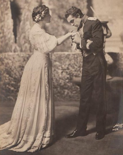 Selene Johnson and William Faversham in the 1905 play The Squaw Man - postcard (cropped : see source).